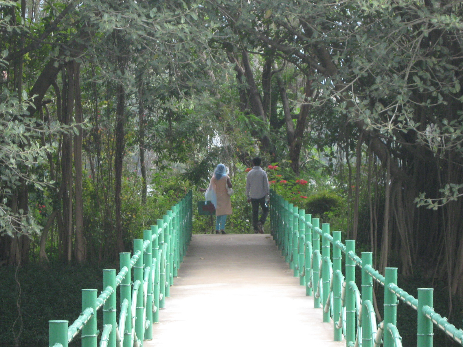 Mysore, India.